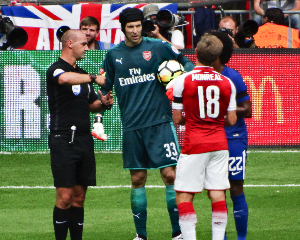 Community Shield at Wembley 6.8.17